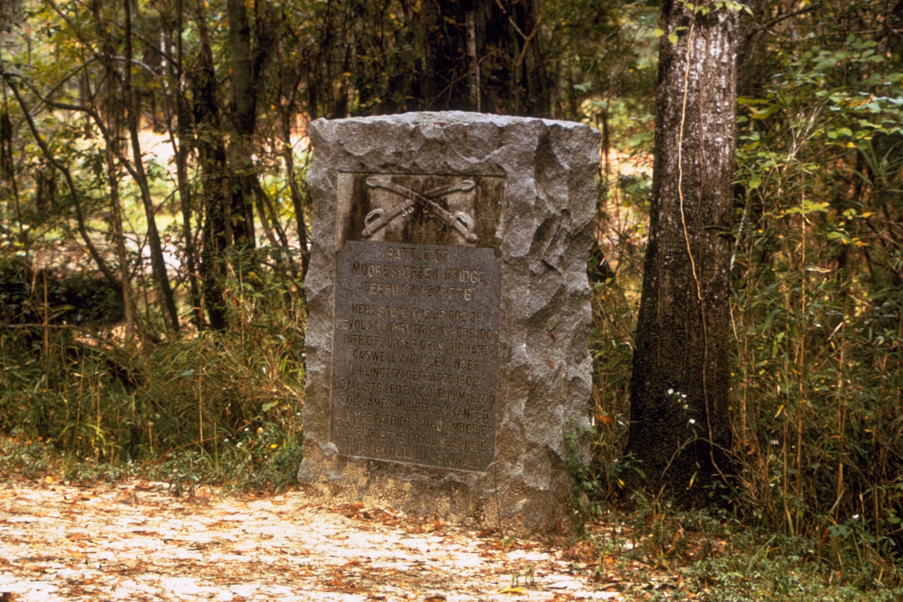 "King George and Broadswords! shouted loyalists as they charged across partially dismantled Moores Creek Bridge on February 27, 1776. Just beyond the bridge nearly a 1,000 North Carolina patriots waited quietly with cannons and muskets poised to fire. This dramatic victory ended British rule in the colony forever.